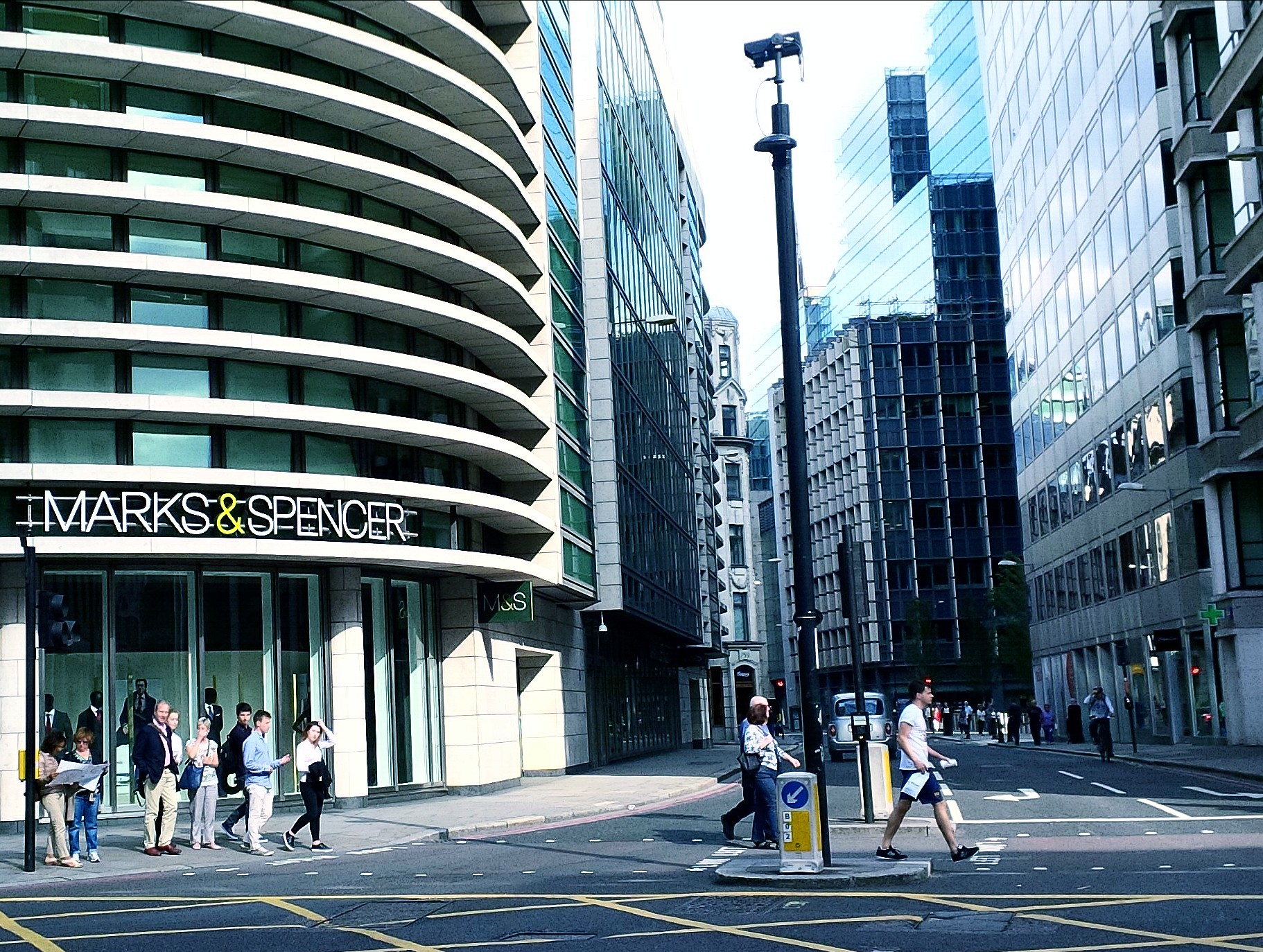 Fenchurch Street in the City of London (western end seen from Lombard Street), August 2014